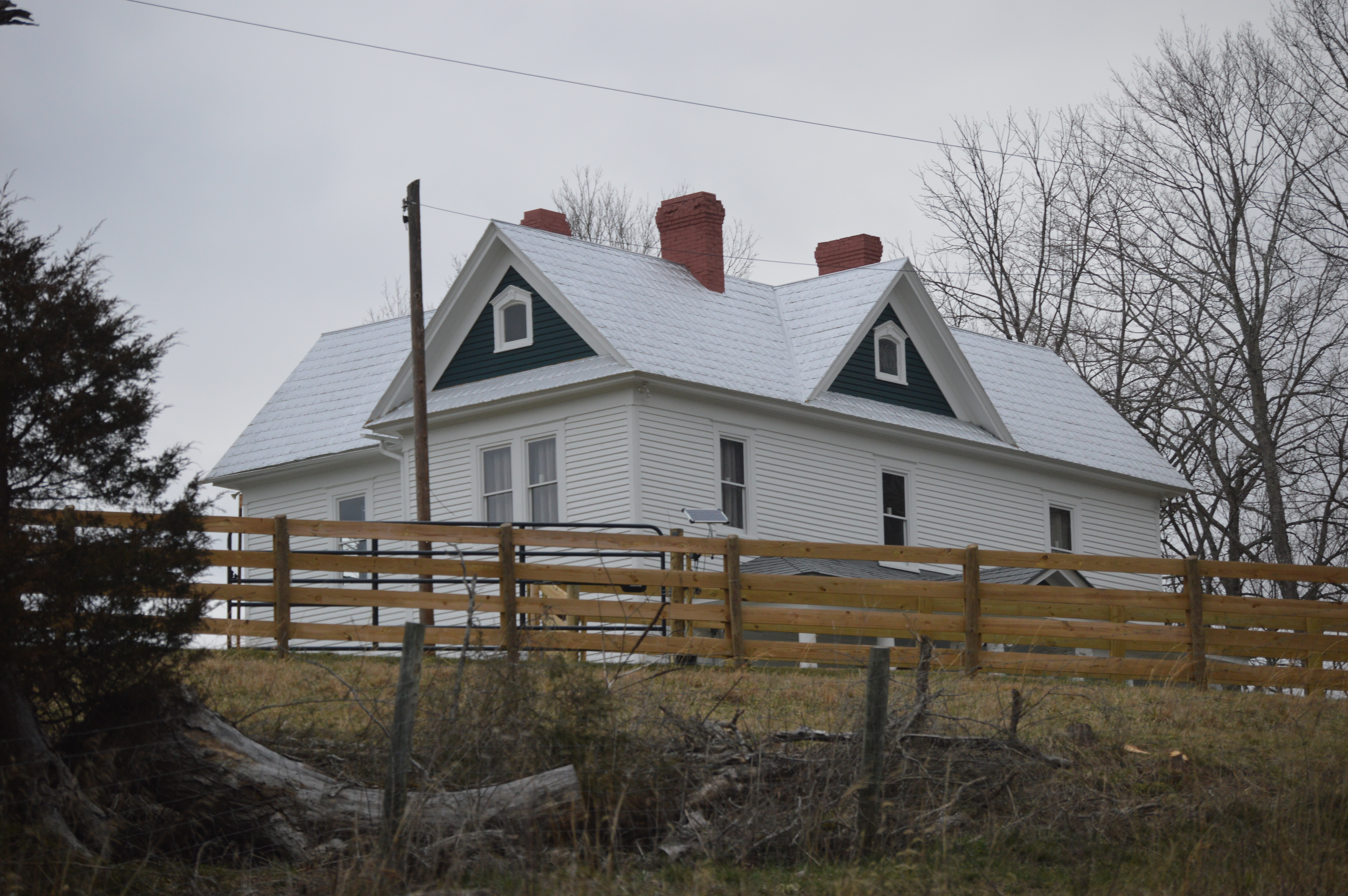 Front of the Junius Marcellus Updyke Farmhouse, located at 4859 E. State Route 42 east of Bland in Bland County, Virginia, United States. Built in 1912, it is listed on the National Register of Historic Places.